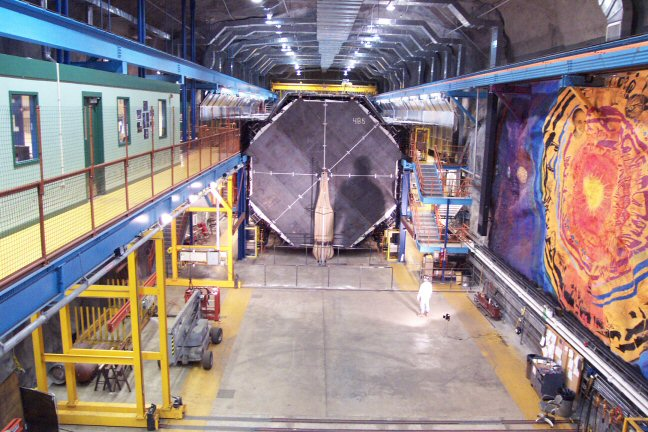 I got this image from [1]. MINOS is funded by the US Department of Energy.